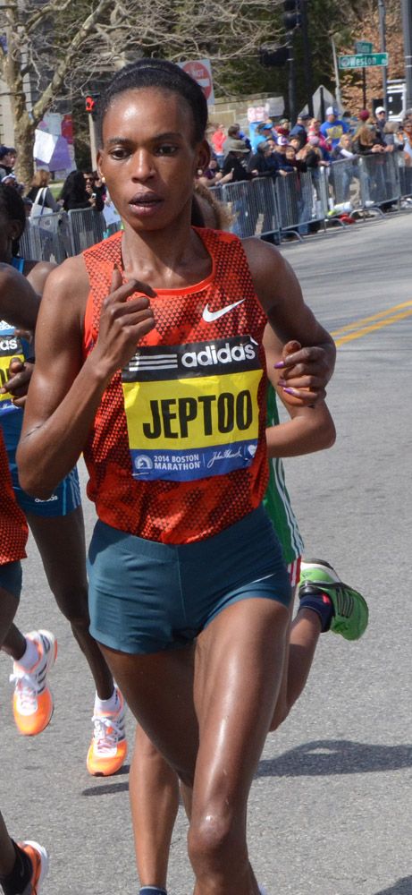 Rita Jeptoo in 2014 Boston Marathon near half way point in Wellesley. A race in which she won.